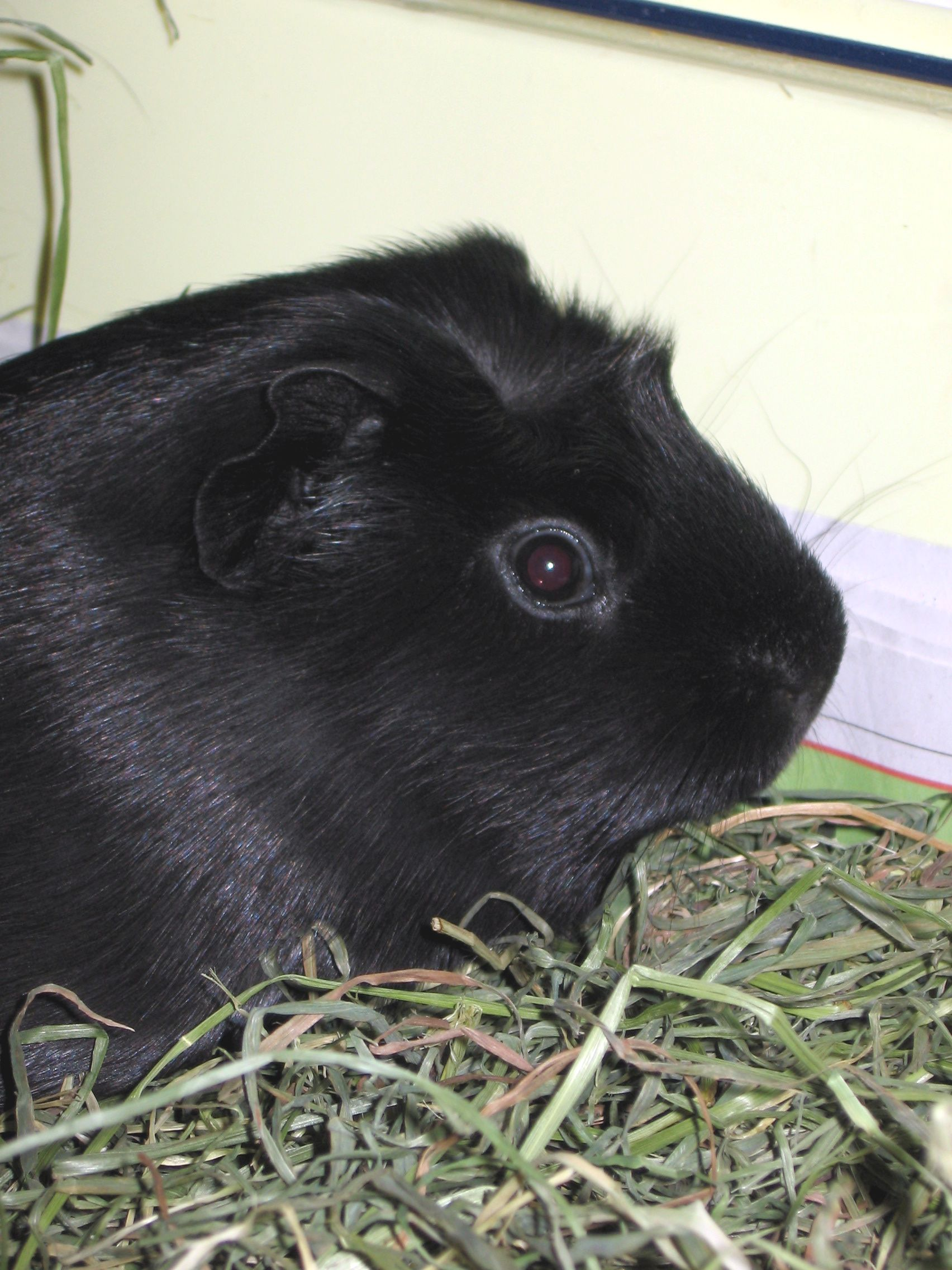 Guinea pigs are seen to be a very cute and wanted house pet. They are very friendly and if handled from an early age, they seem to enjoy being with their human companions. Cavia porcellus self made